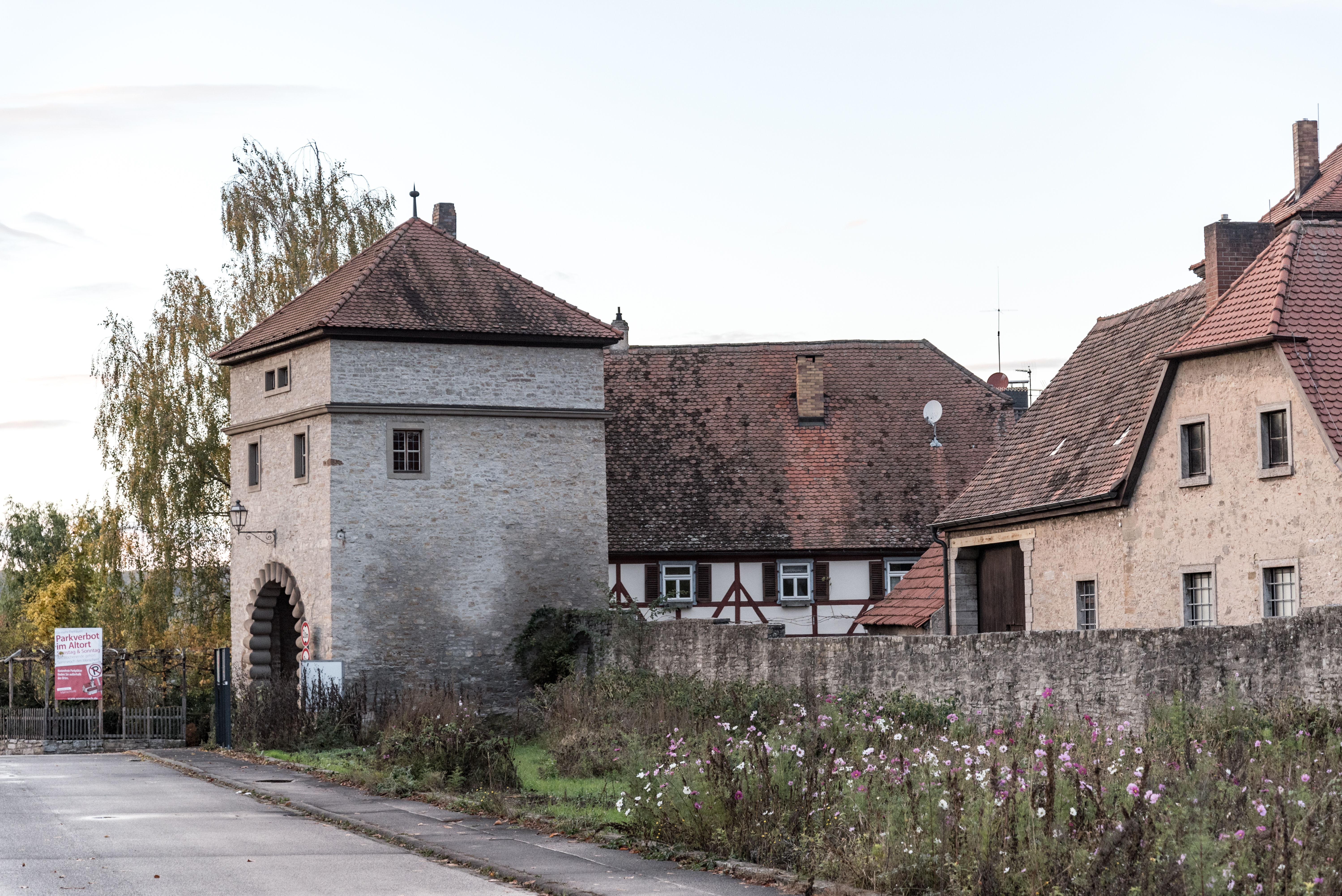 Sommerach, Maintor